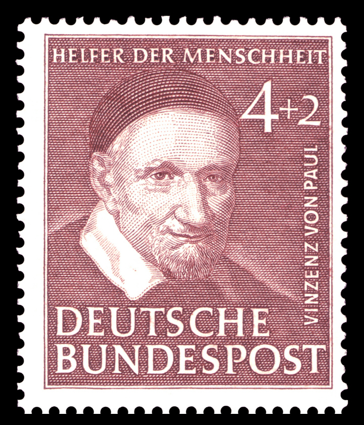 Social welfare stamp series 1951, Vinzenz von Paul (1581-1660) Graphics by Hermann Zapf Ausgabepreis: 4+2 Pfennig First Day of Issue / Erstausgabetag: 23. Oktober 1951 Michel-Katalog-Nr: 143